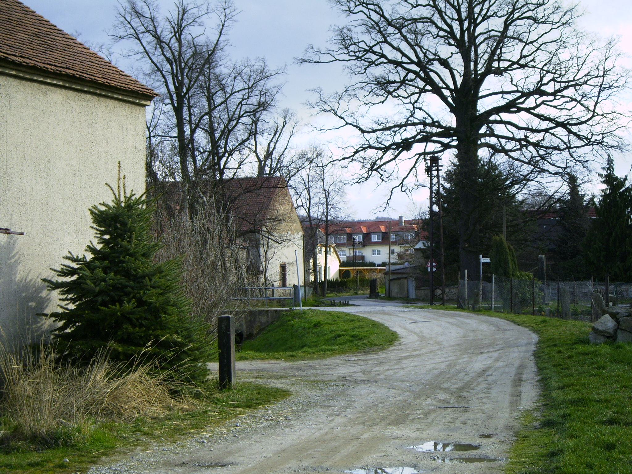 In the village of Auritz, which is a part of Bautzen.